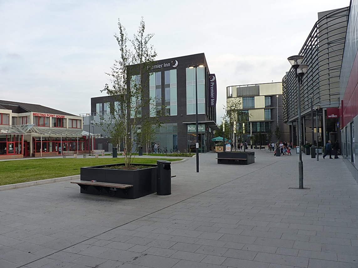 Southwater Phase 1 - new developments at Telford Town Centre